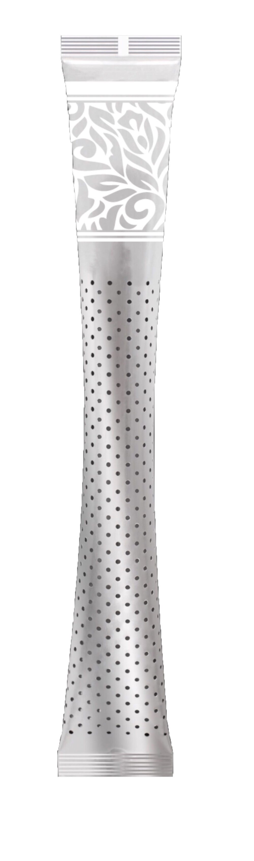 Tea in stick with perforation